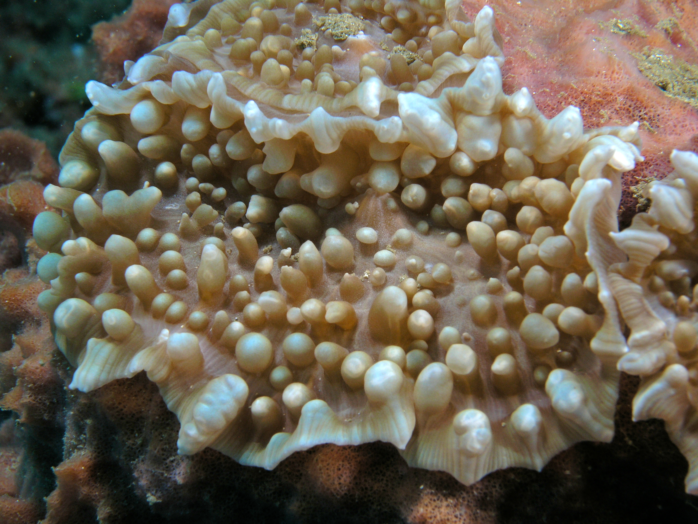 Amplexidiscus fenestrafer (Disc anemone)